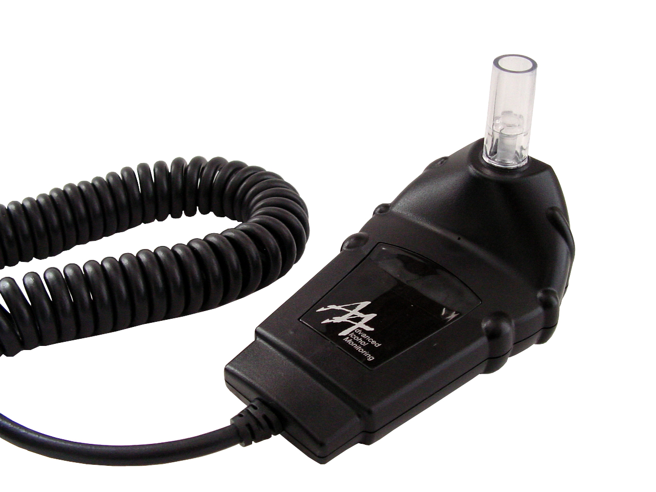 AMS2000 Ignition Interlock Device manufactured by Guardian Interlock Systems